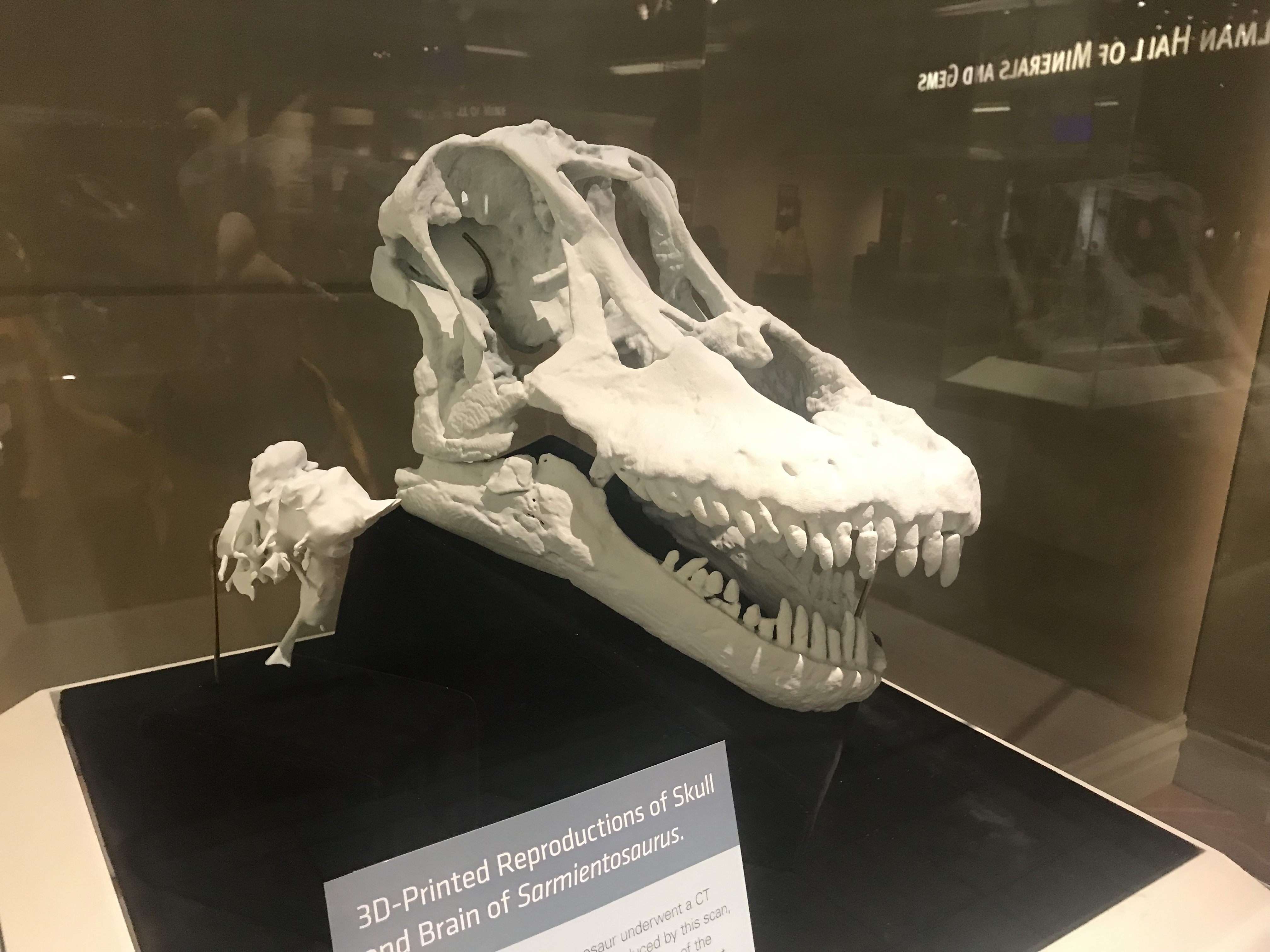 Sarmientosaurus skull of Carnegie Museum of Natural History.